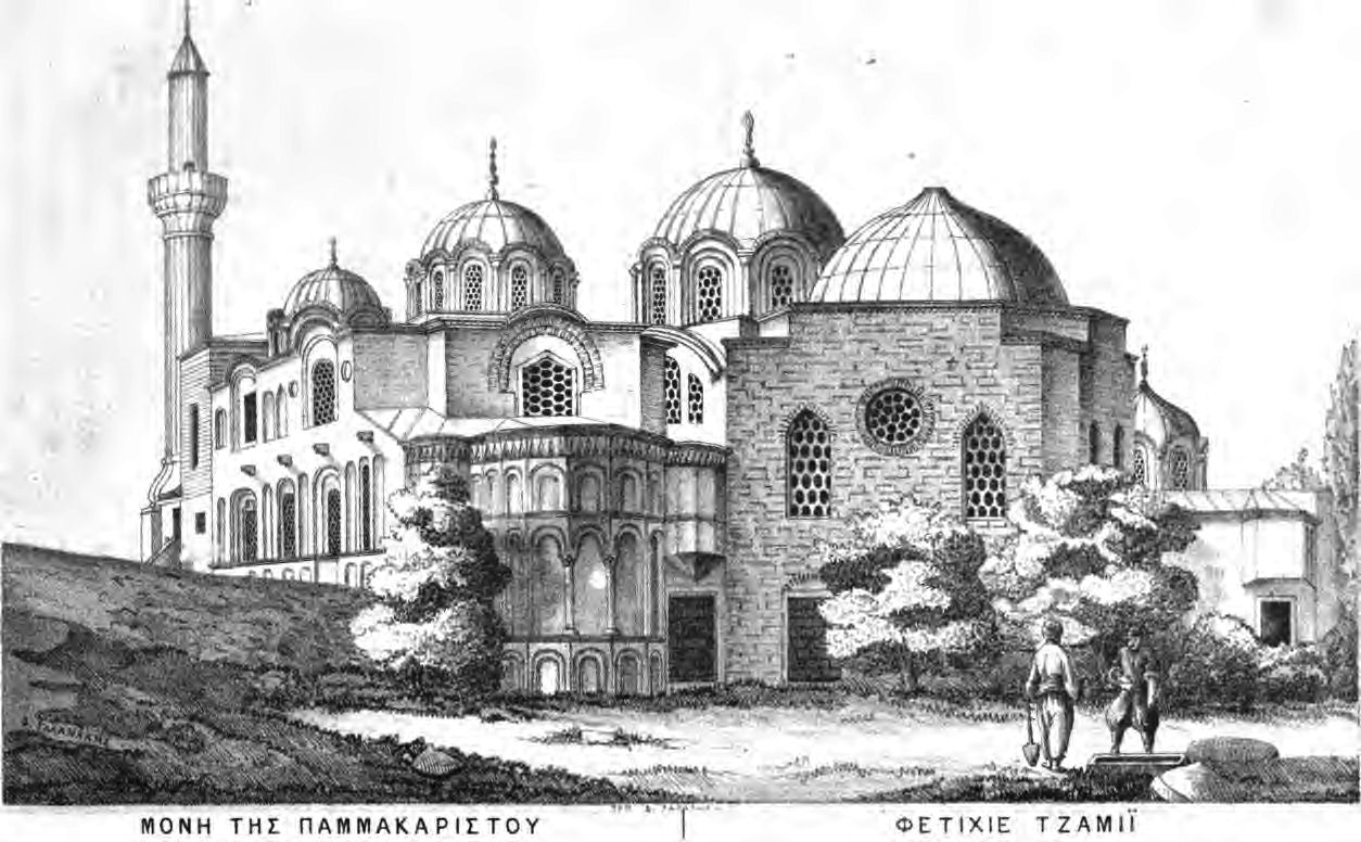 Byzantinai meletai topographikai (1877) Author: Paspatēs, Alexandros Geōrgiou, 1814-1891. [from old catalog] Subject: Inscriptions, Greek Year: 1877 Possible copyright status: NOT_IN_COPYRIGHT Language: English Digitizing sponsor: Google Book contributor: Oxford University Collection: europeanlibraries